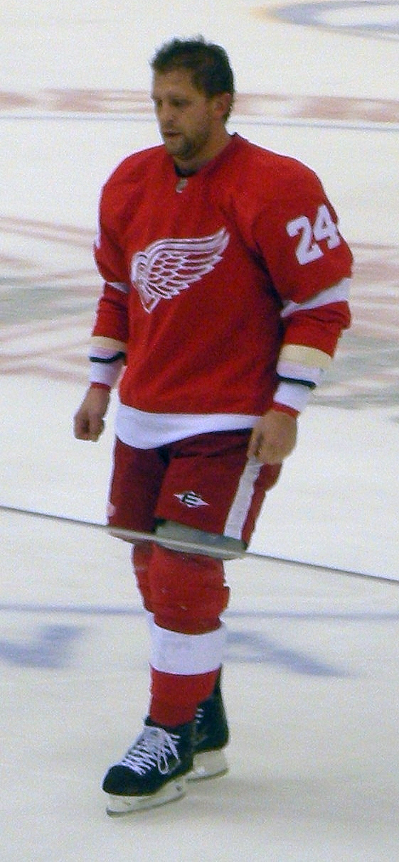 Ruslan Salei during the Anaheim Ducks vs. Detroit Red Wings ice hockey game at Joe Louis Arena in Detroit, Michigan (United States). Detroit won 4–0.